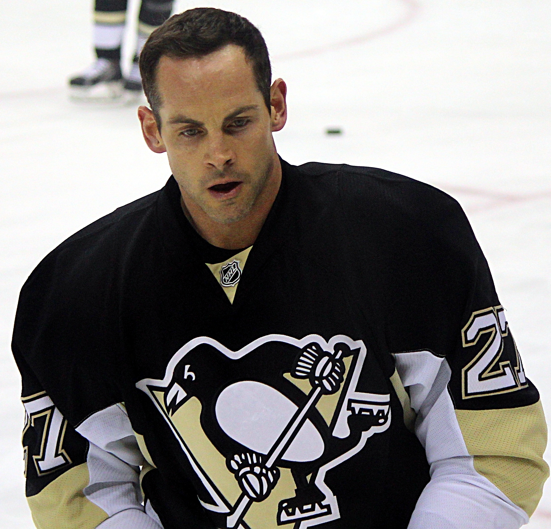 Pittsburgh Penguins forward Craig Adams during a game against the Calgary Flames, December 12, 2014, at Consol Energy Center in Pittsburgh, PA.